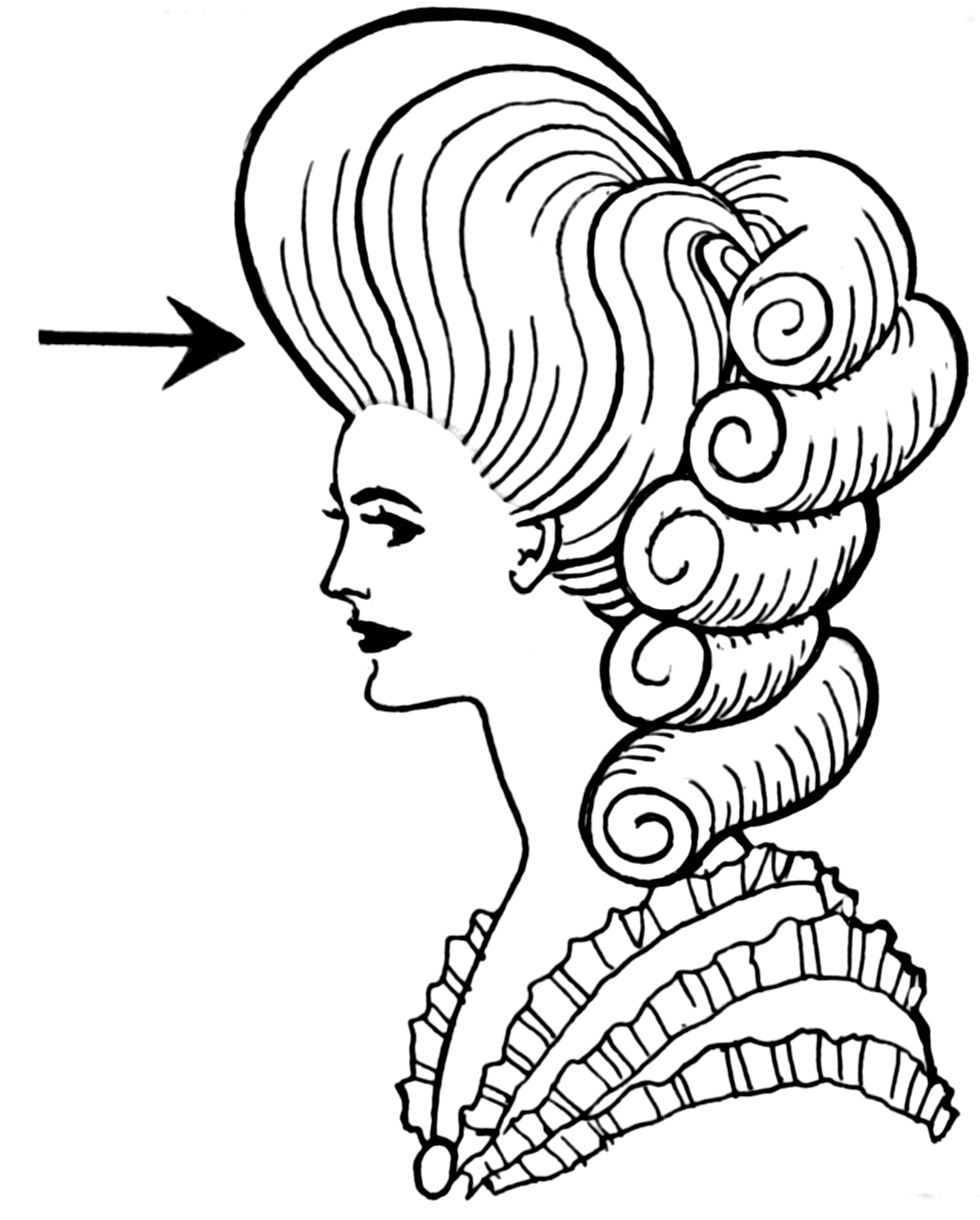 Line art drawing of pompadour.